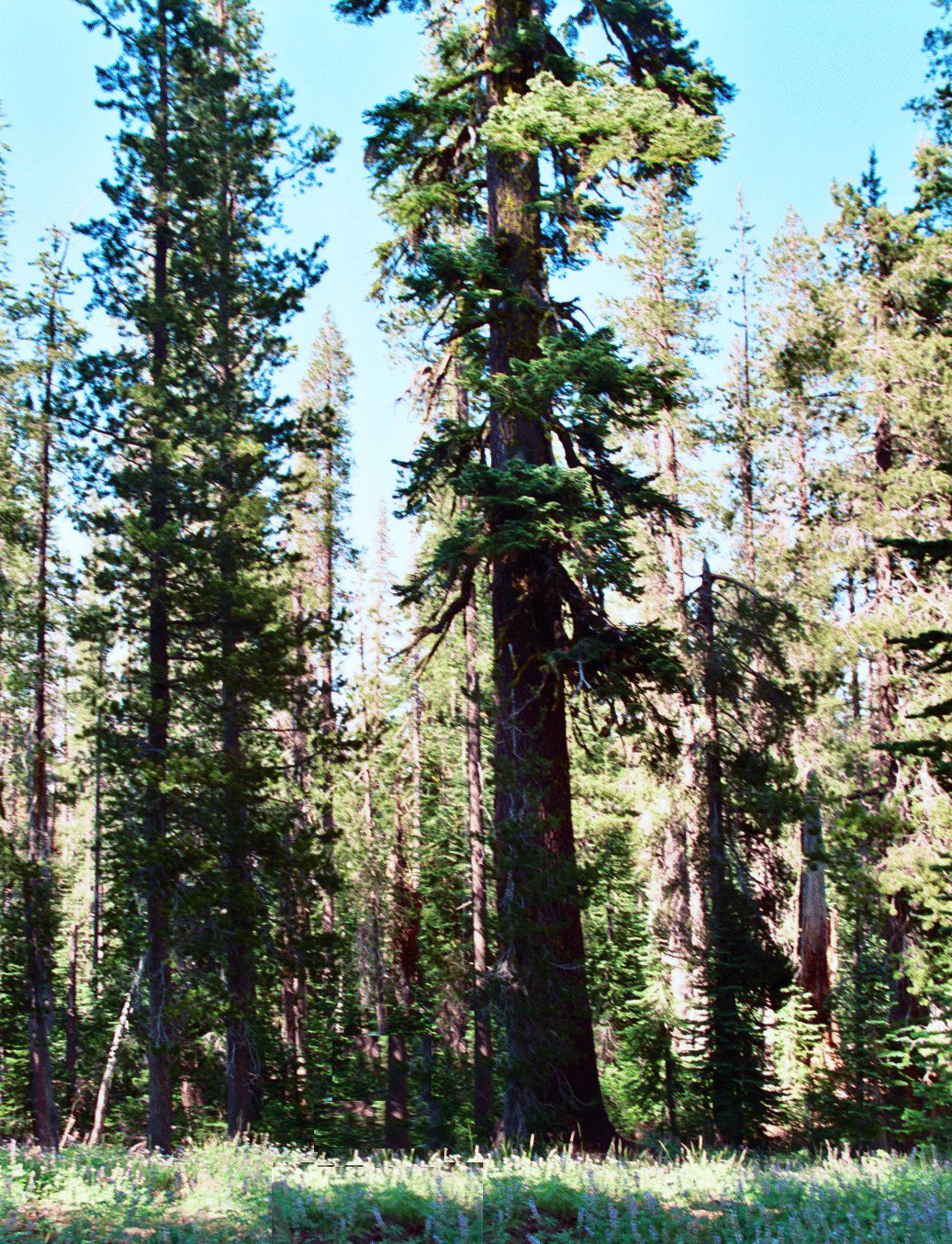 An old growth Abies magnifica tree — Lassen National Forest, Caribou Wilderness area. Northern California. USA.